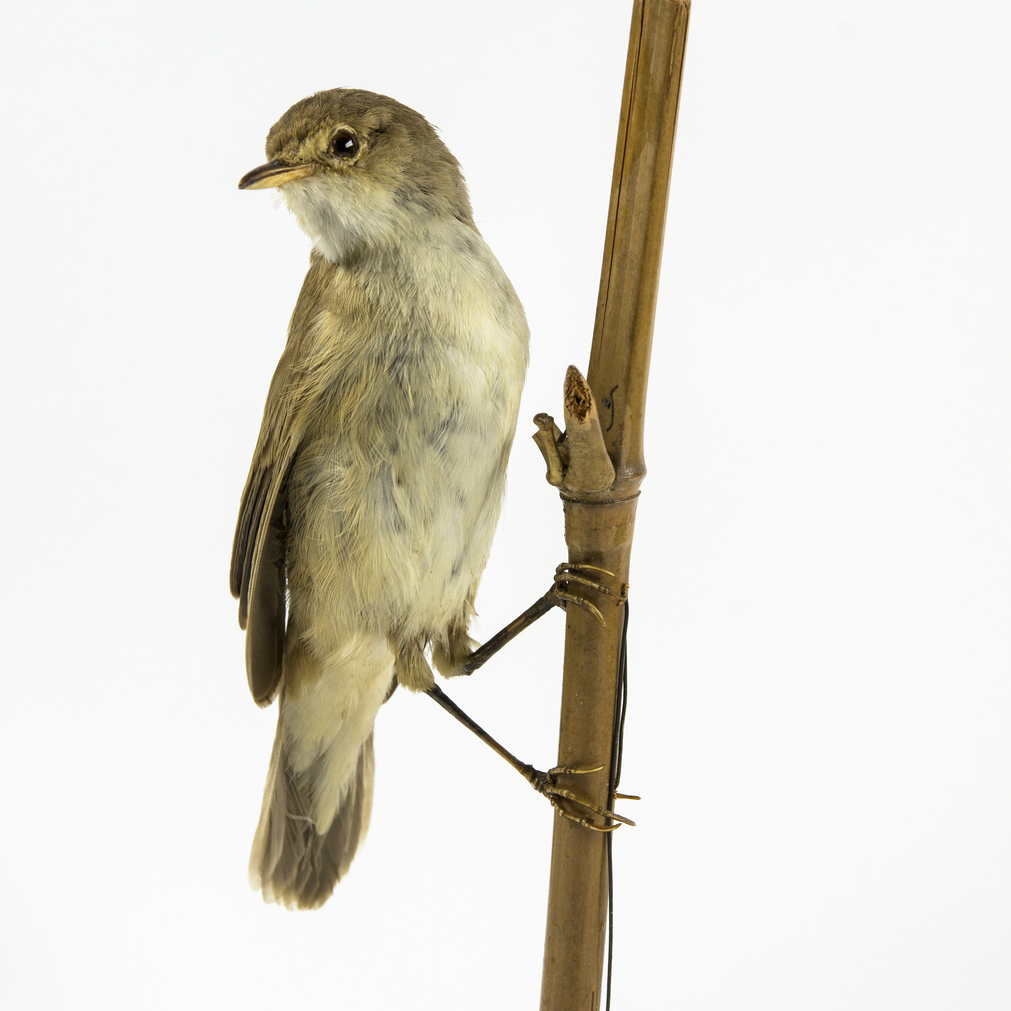 taxidermied specimen, Eurasian reed warbler